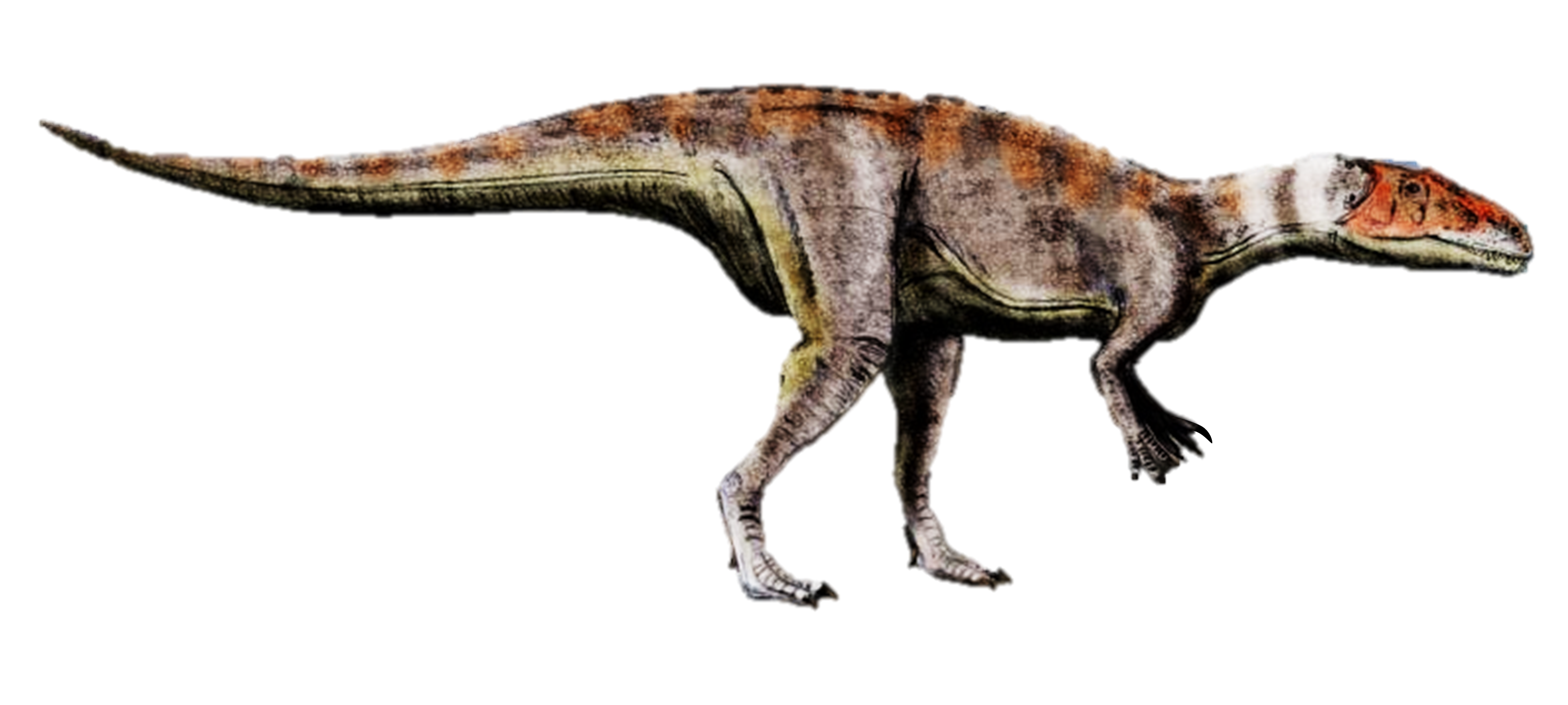 Dubreuillosaurus restoration by Nobu Tamura (Flipped and png for use in cladograms and such.)